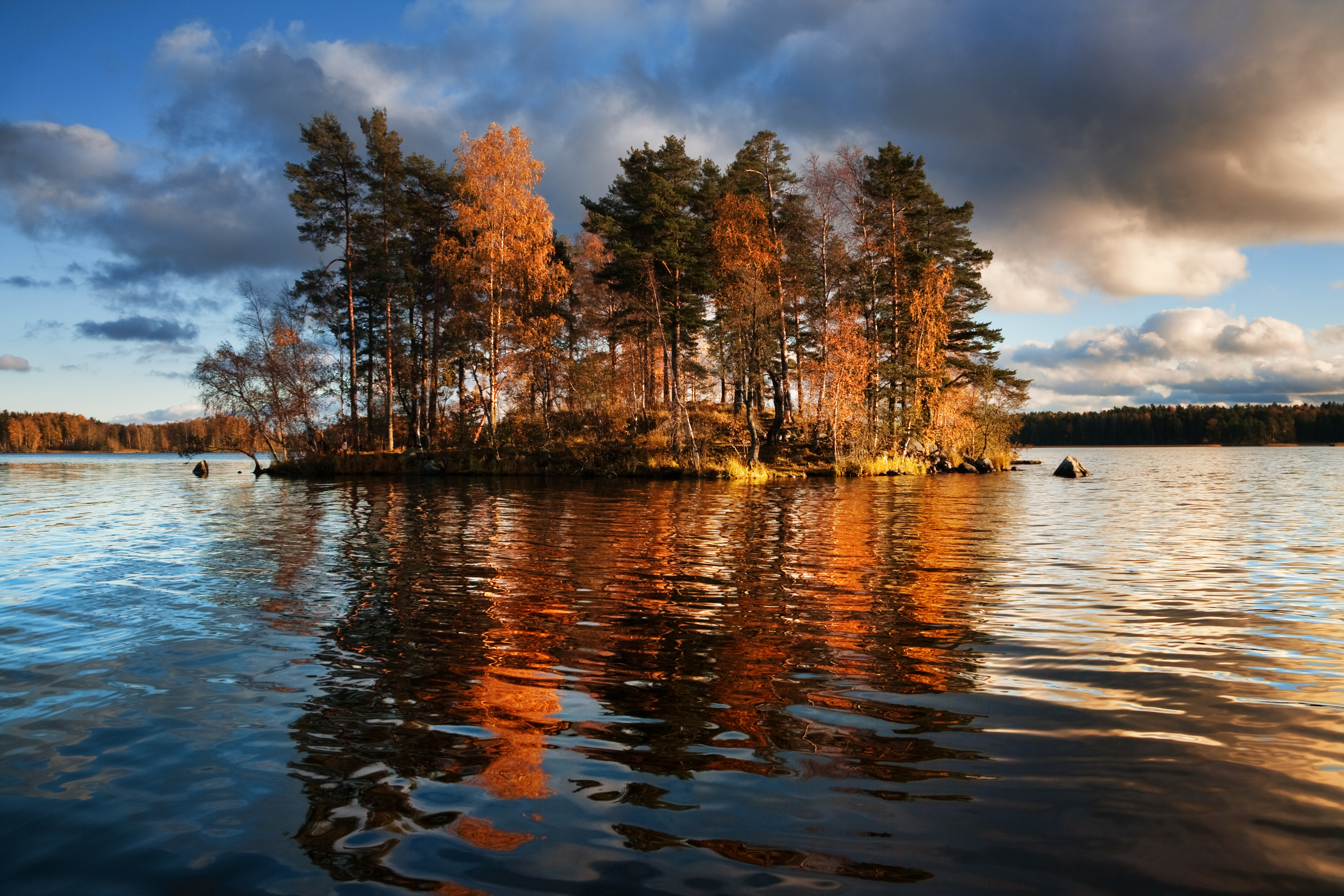 Okunevy Island in Lake Vuoksa.